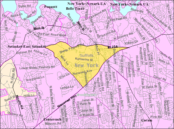 U.S. Census 2000 reference map for Port Jefferson Station